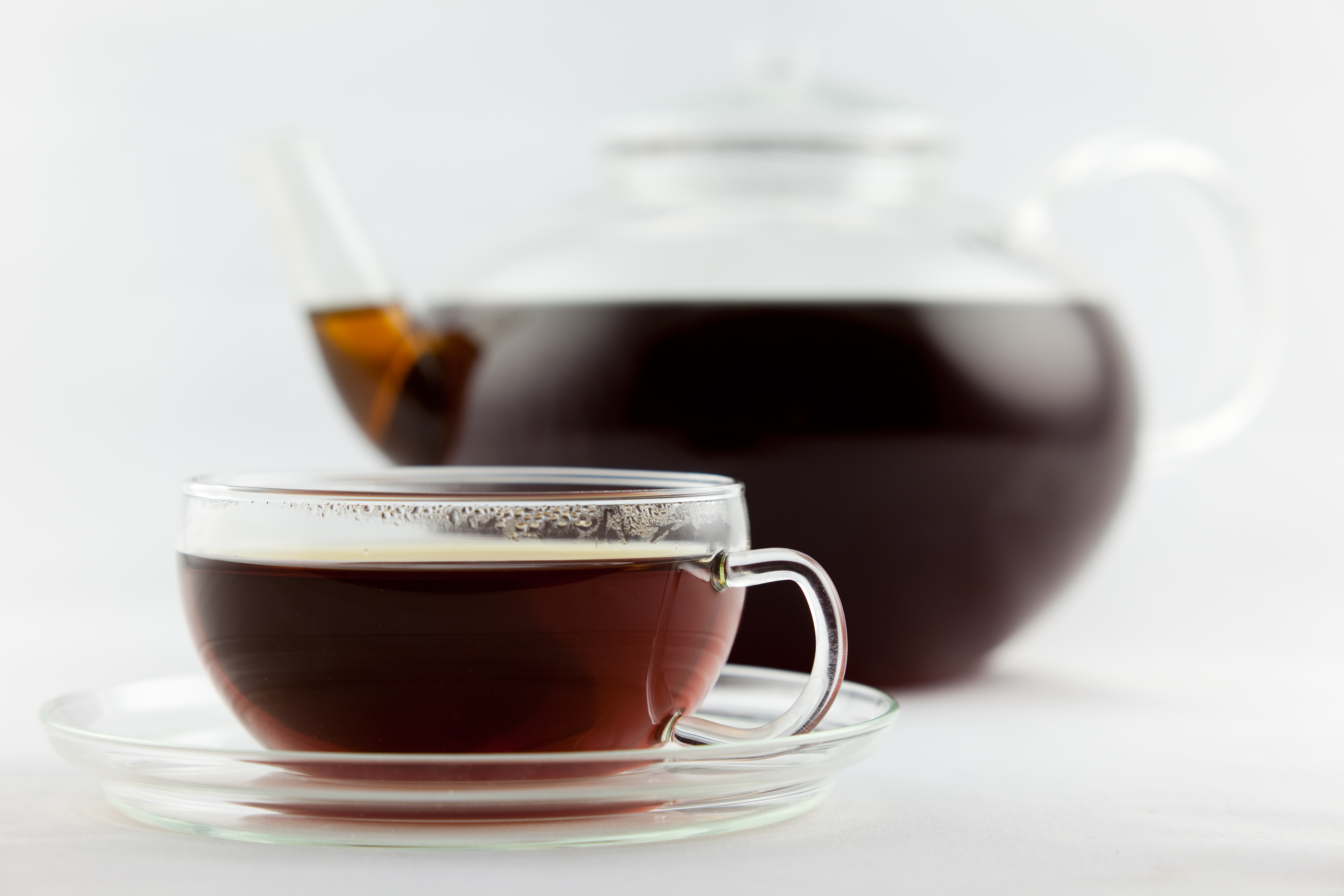 Earl Grey Tea in pot and glass